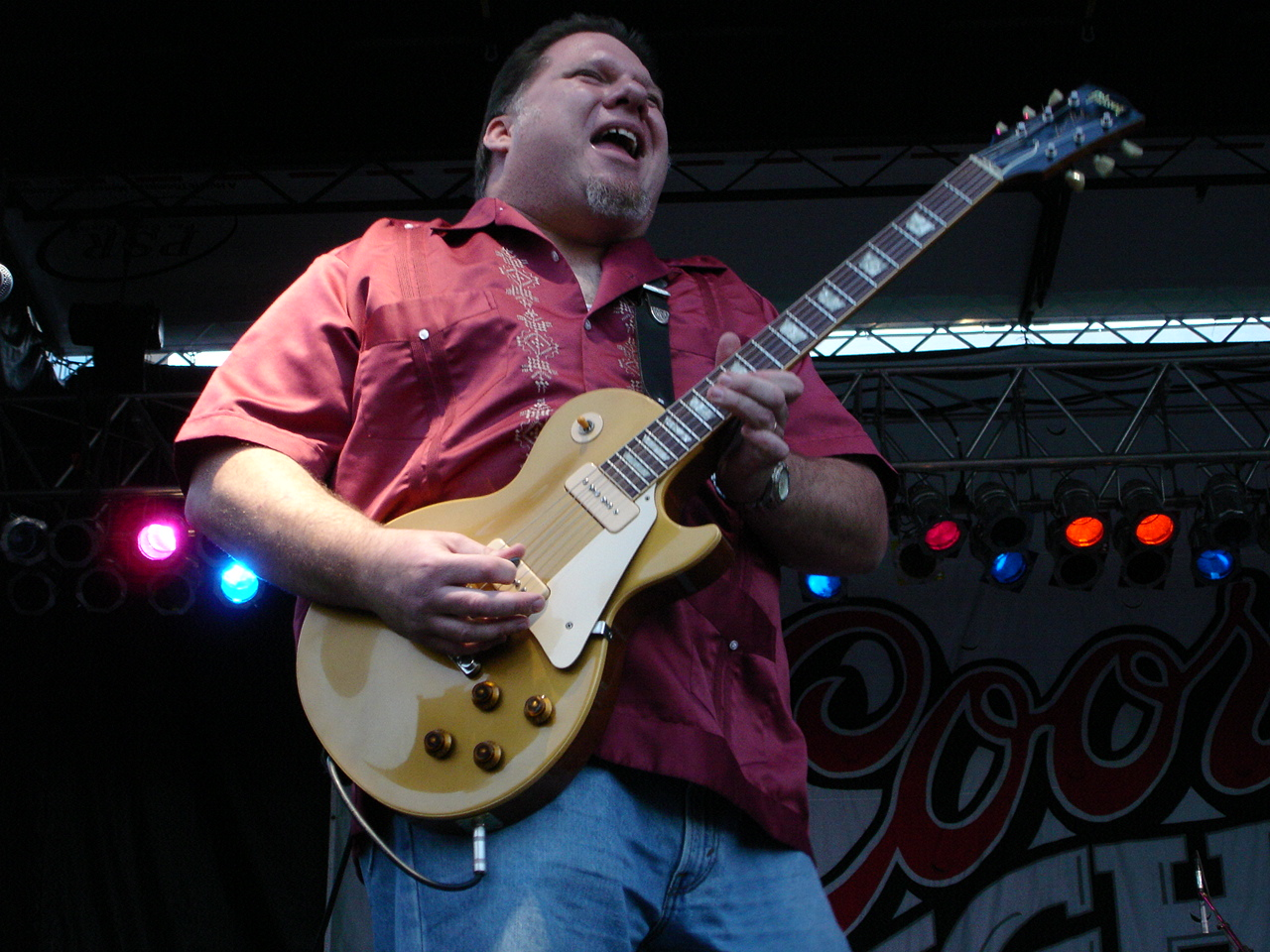 Pat Boyack accompanies Ruthie Foster in Fort Worth, Texas, 2008.